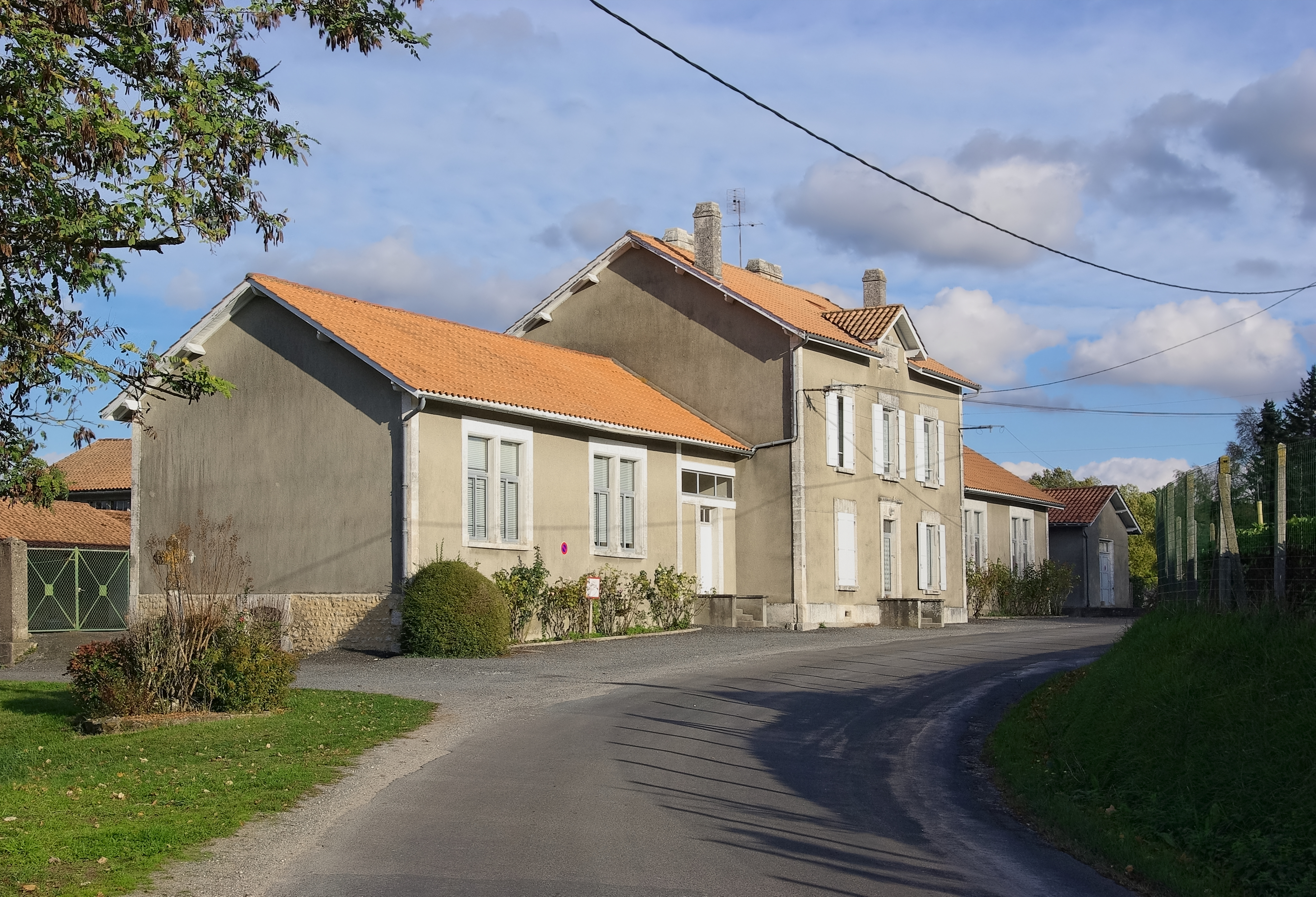 School, formerly a town hall school (19th century), Saint-Amant-de-Montmoreau, Charente, France.